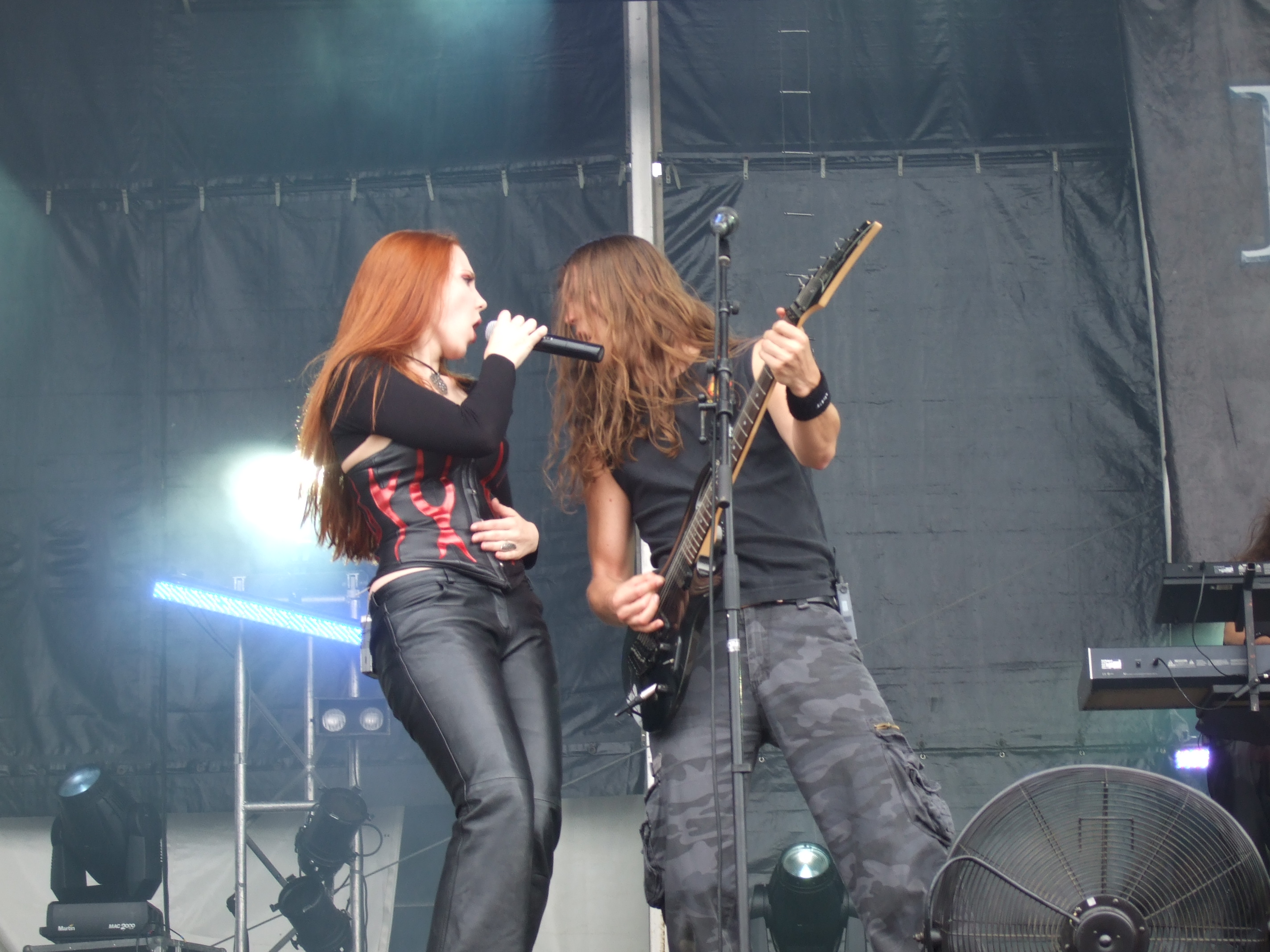 Epica at Hellfest Summer Open Air 2007.